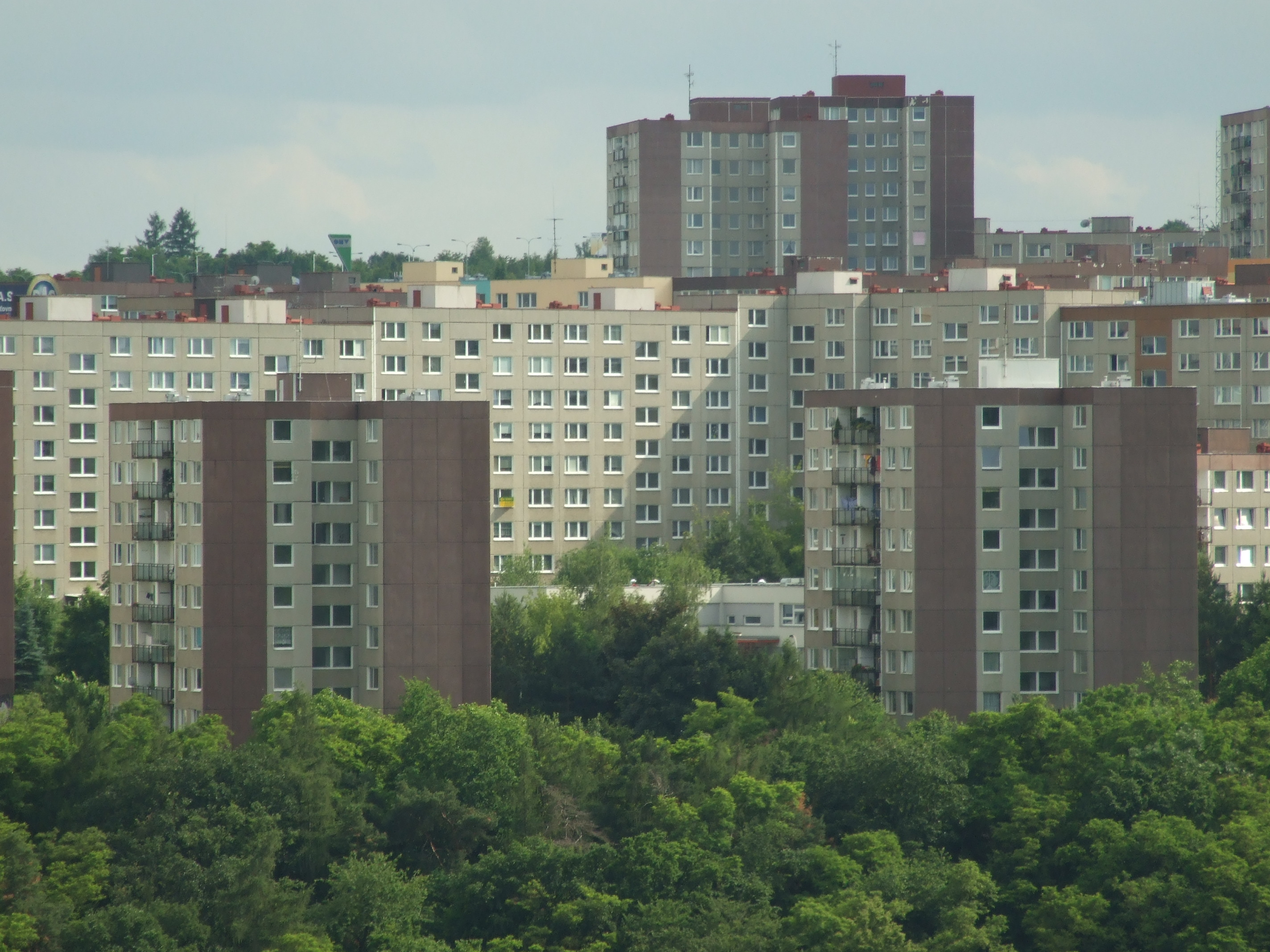 Barrandov seen from Jinonice side of Prokopské údolí valley, Prague CZ